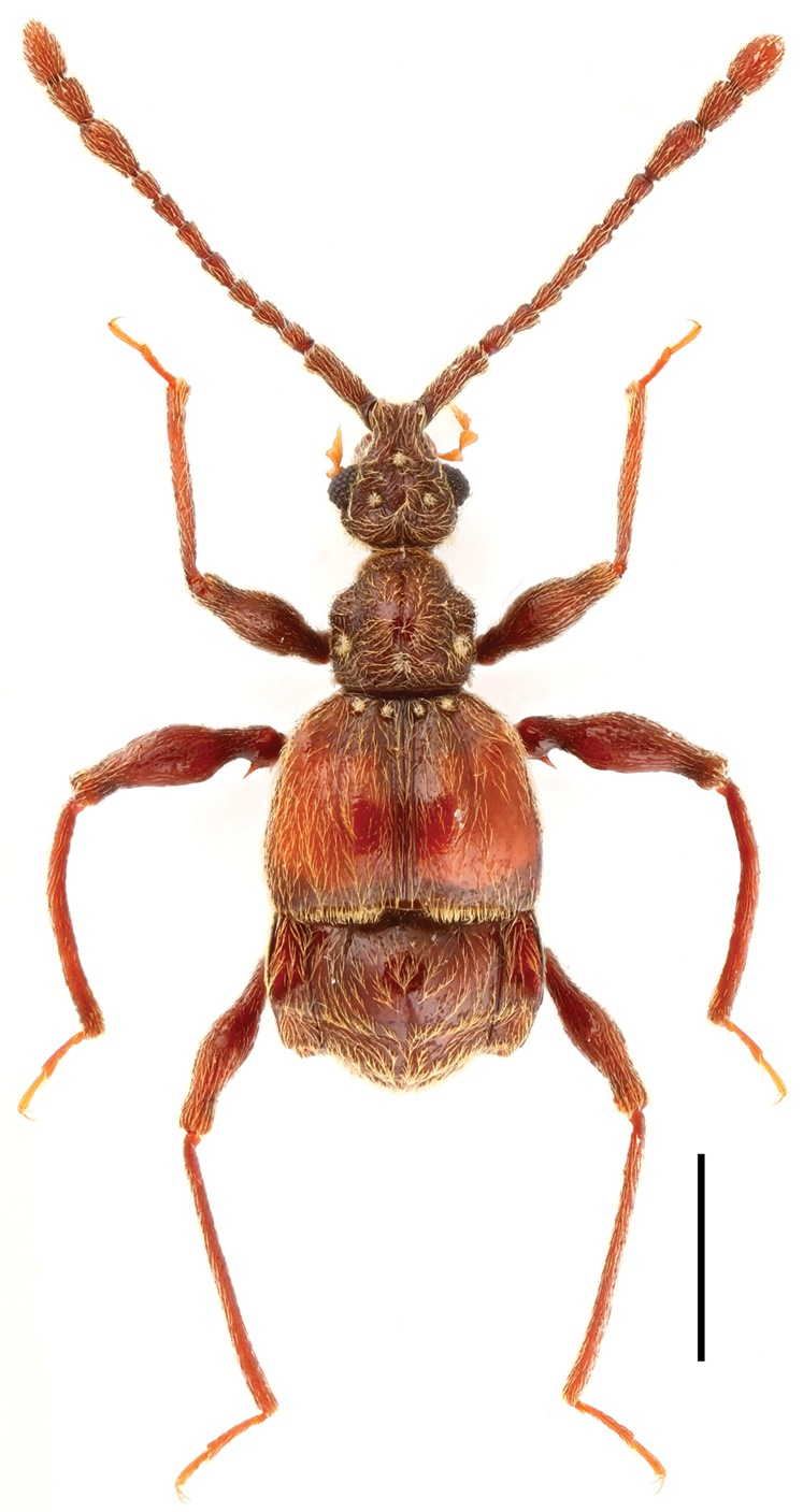 Male habitus of Pselaphodes hainanensis. Scale: 1.0 mm.